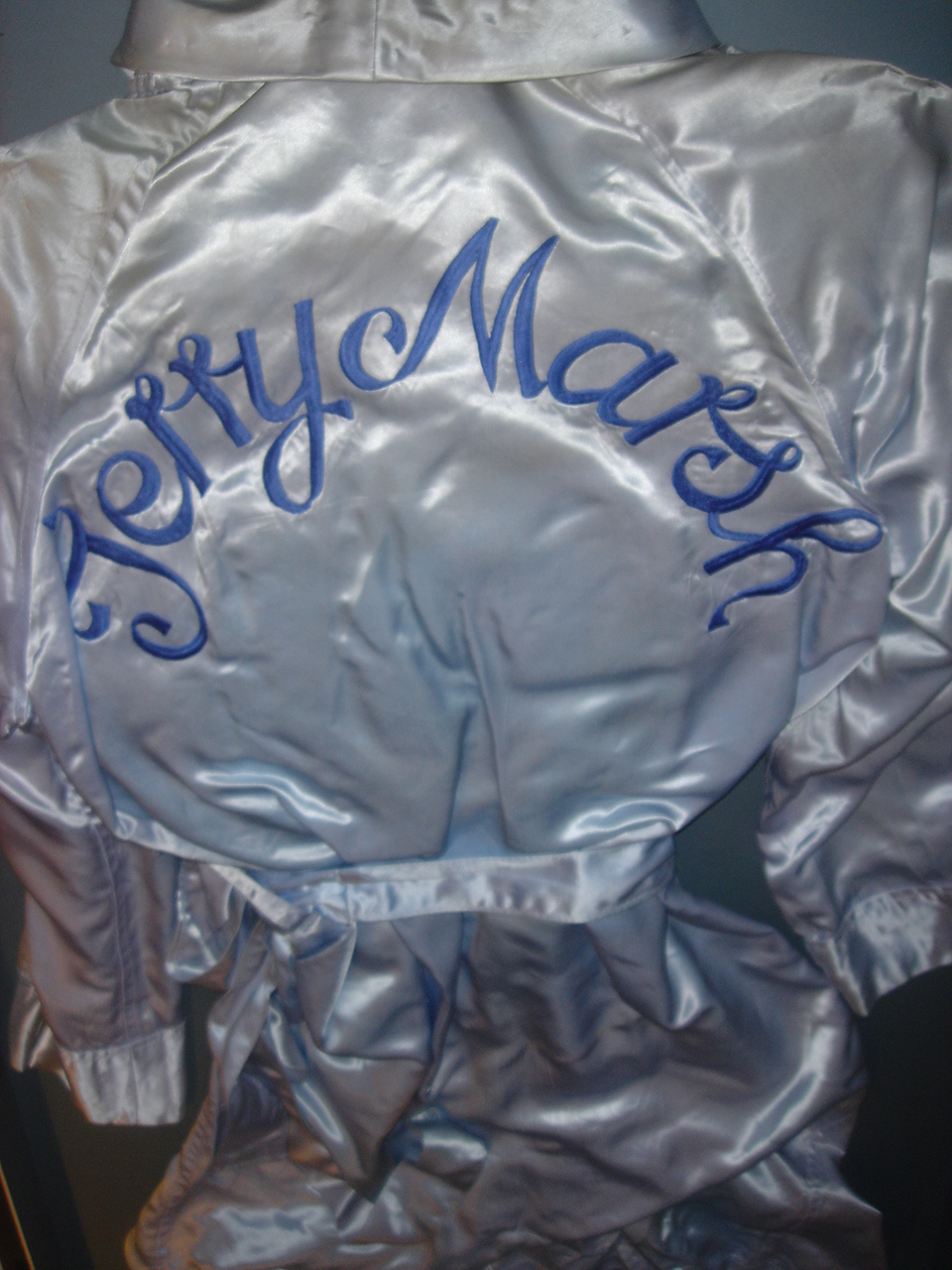 Boxer Terry Marsh's robe